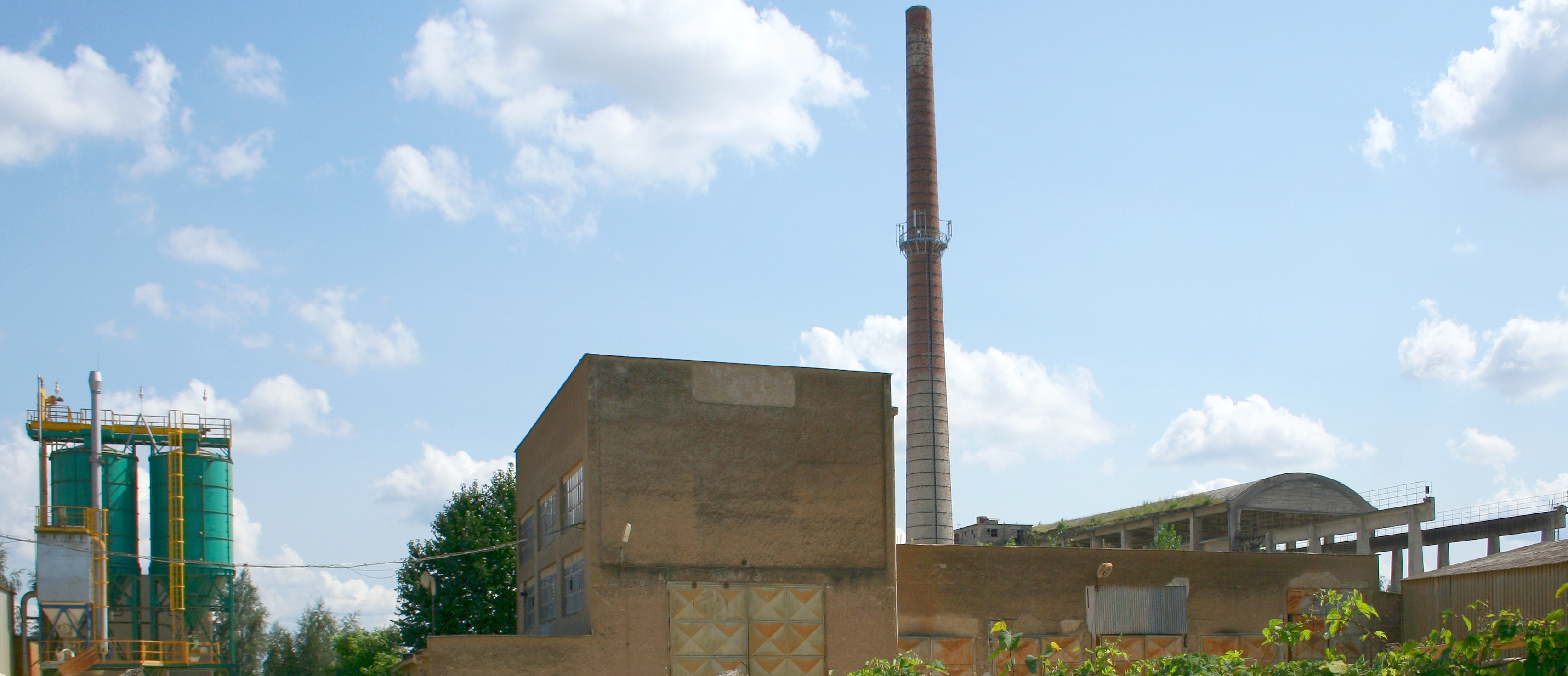 Zeocem in Bystre, Slowakia